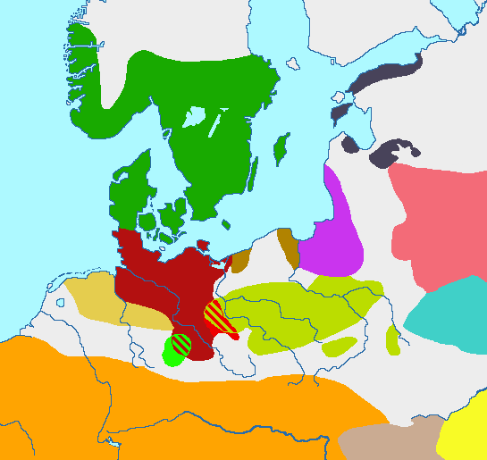 Archeological cultures in Northern and Central Europe at the late pre-Roman Iron Age (2nd century BC - 1st century AD). Legend : dark green - Nordic group dark red - Jastorf culture yellow ochre (left center) - Harpstedt-Nienburg group bright green (left center) - Houseshaped urn group orange - Celtic groups yellow-green - Przeworsk culture carnation - east-Baltic cultures of forest zone purple - west-Baltic culture turquoise - Zarubincy culture black - Estonic group bright red - Guben group of Jastorf culture (influenced by Przeworsk culture) brown - Oksywie culture taupe (bottom right) - Geto-Dacian and Thracian groups yellow (bottom right) - Poieneşti-Lukaševka culture (influenced by Przeworsk and Jastorf culture)